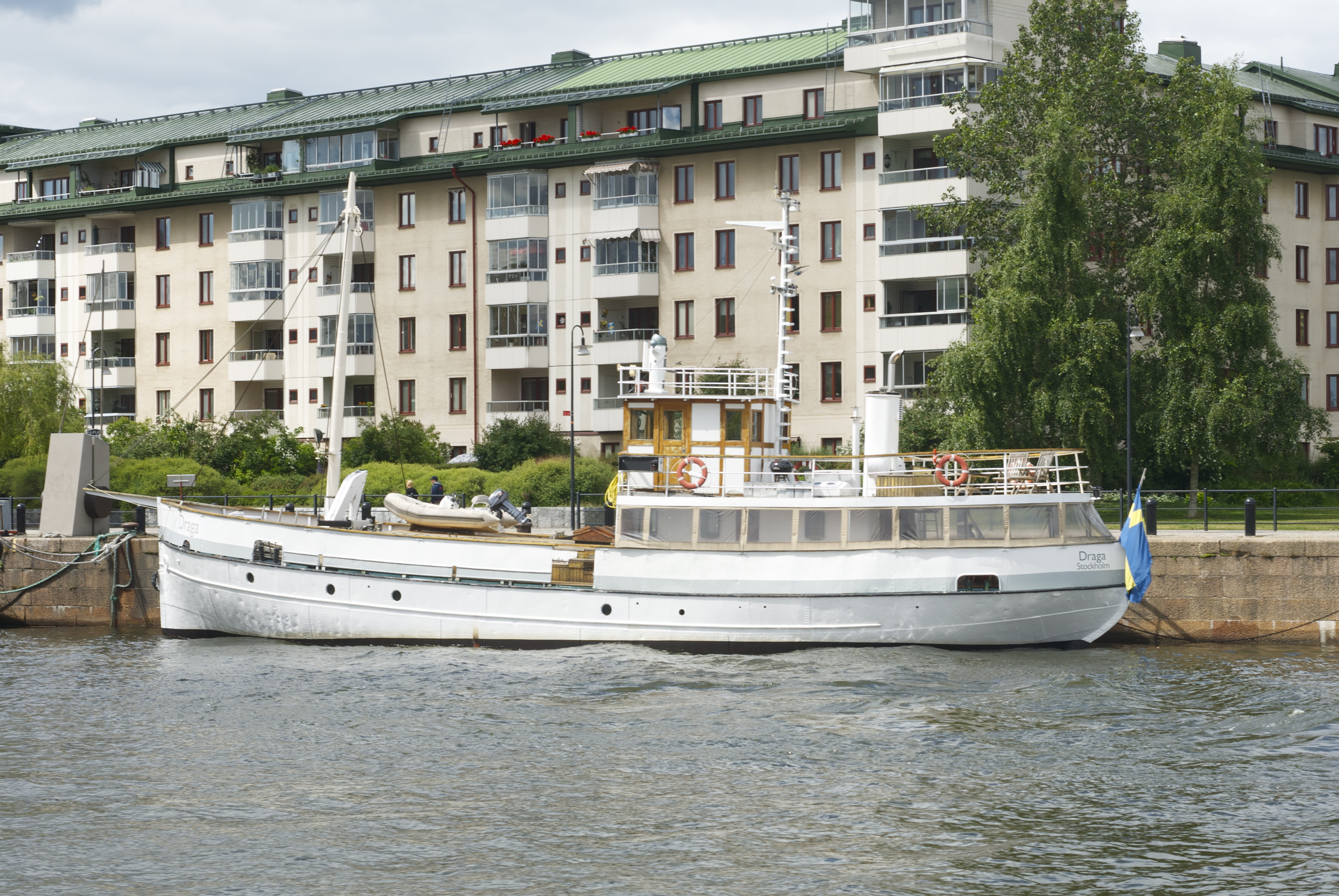 M/S Draga.